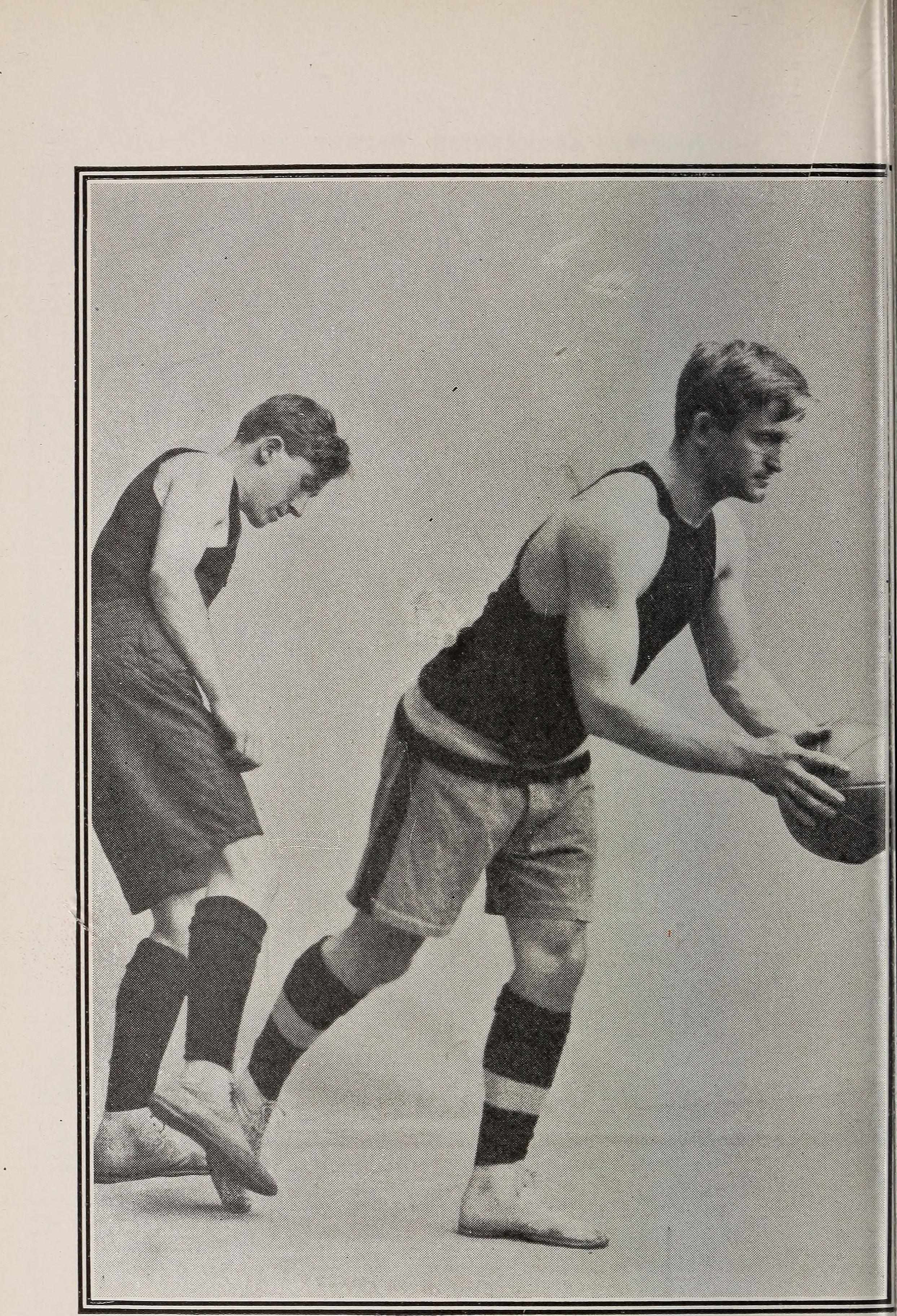 Title: Official basket ball guide and Protective association rules for 1908 '09 Year: 1908 (1900s) Authors: Smith, Thomas Henry, 1870?- (from old catalog) Protective basket-ball association of the eastern states. (from old catalog) Subjects: Basketball Publisher: New York city, R. K. Fox Text Appearing Before Image: PLATE NO. 9. PROTECTIVE ASSOCIATION BASKET BALL. 113 Plate No. 9. Illustrates a player catching the ball on ornear the boundary line, while his opponent, whohas no hope of obtaining possession of the ball,deliberately fouls him by a violent push. Theoffender, without doubt, is the man who does thepushing, and the man with the ball cannot beconsidered as carrying it out of bounds. Text Appearing After Image: PLATE NO. 10, PROTECTIVE ASSOCIATION BASKET BALL. 115 Plate No. 10. Illustrates one of the most dangerous forms offouling. Serious accidents often result fromthat most sneaking of all plays—the trip. Thebest place for the player who trips is on the sidejlines.